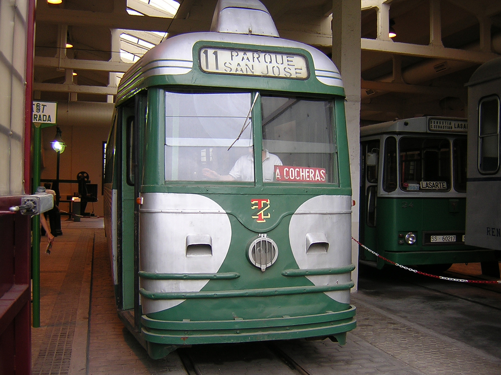 Tram that worked in Zaragoza, Spain. Now retired in el Museo del Ferrocarril de Azpeitia.